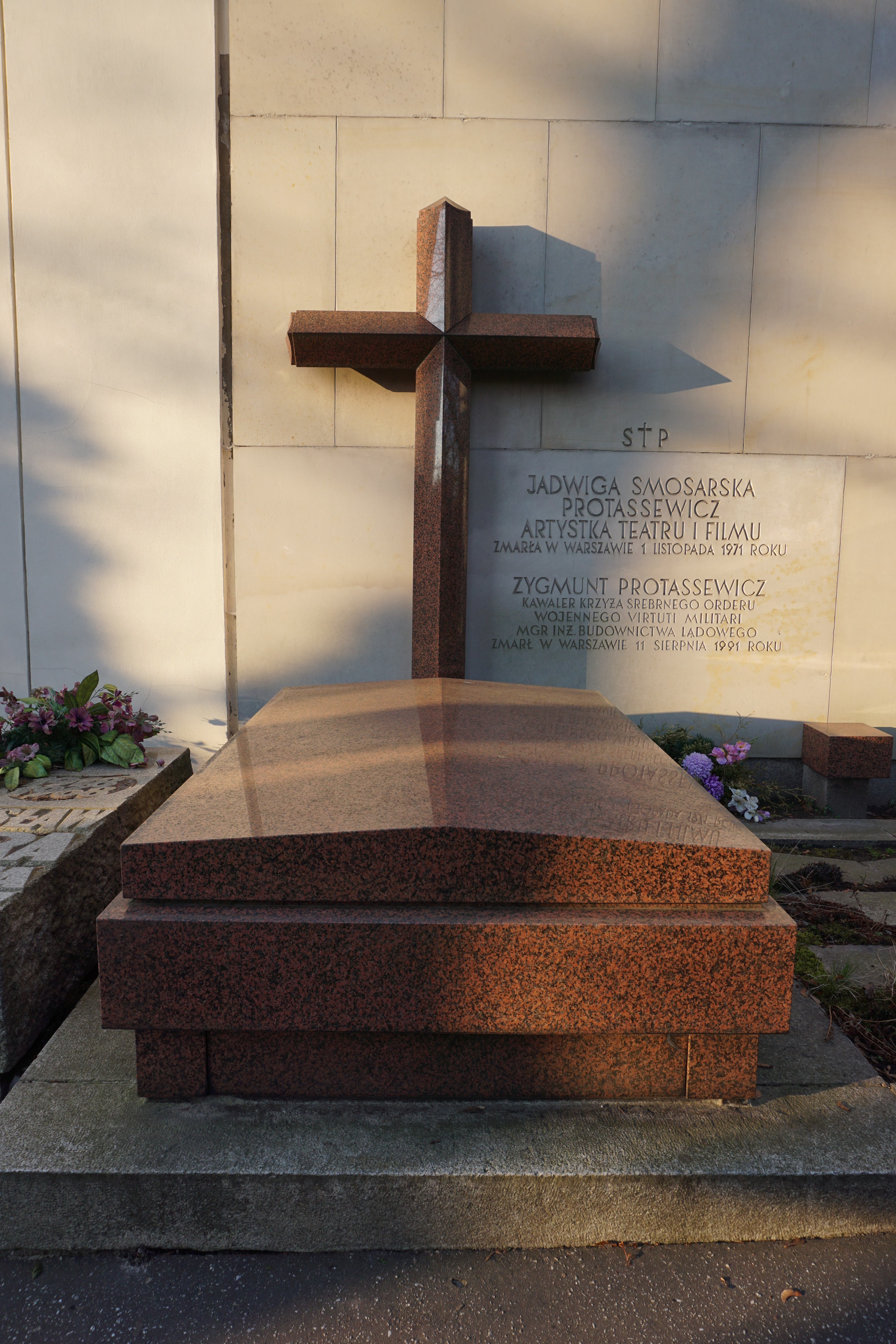 The grave of Jadwiga Smosarska at the Powązki Cemetery (Avenue of Deserved, grave 158, 159, 160, 160, 161, 162)